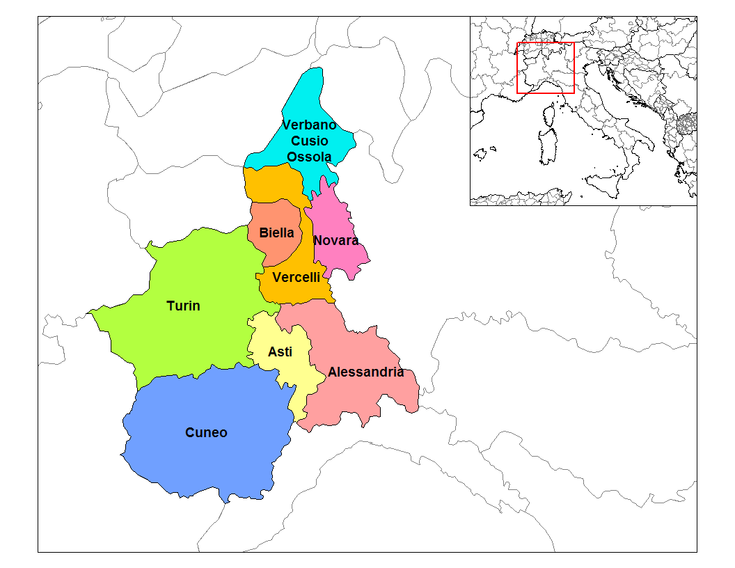 Map of the provinces of the Piedmont region of Italy.